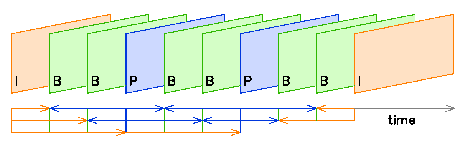 I, P and B pictures sequence